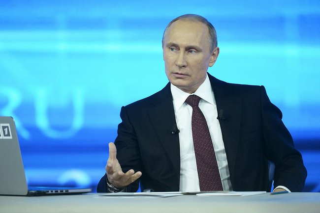 Direct Line with Vladimir Putin (2014-04-17)